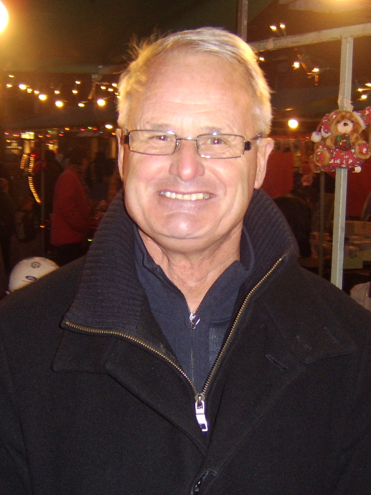 Dutch soccer trainer Foppe de Haan. Photo taken in Joure.